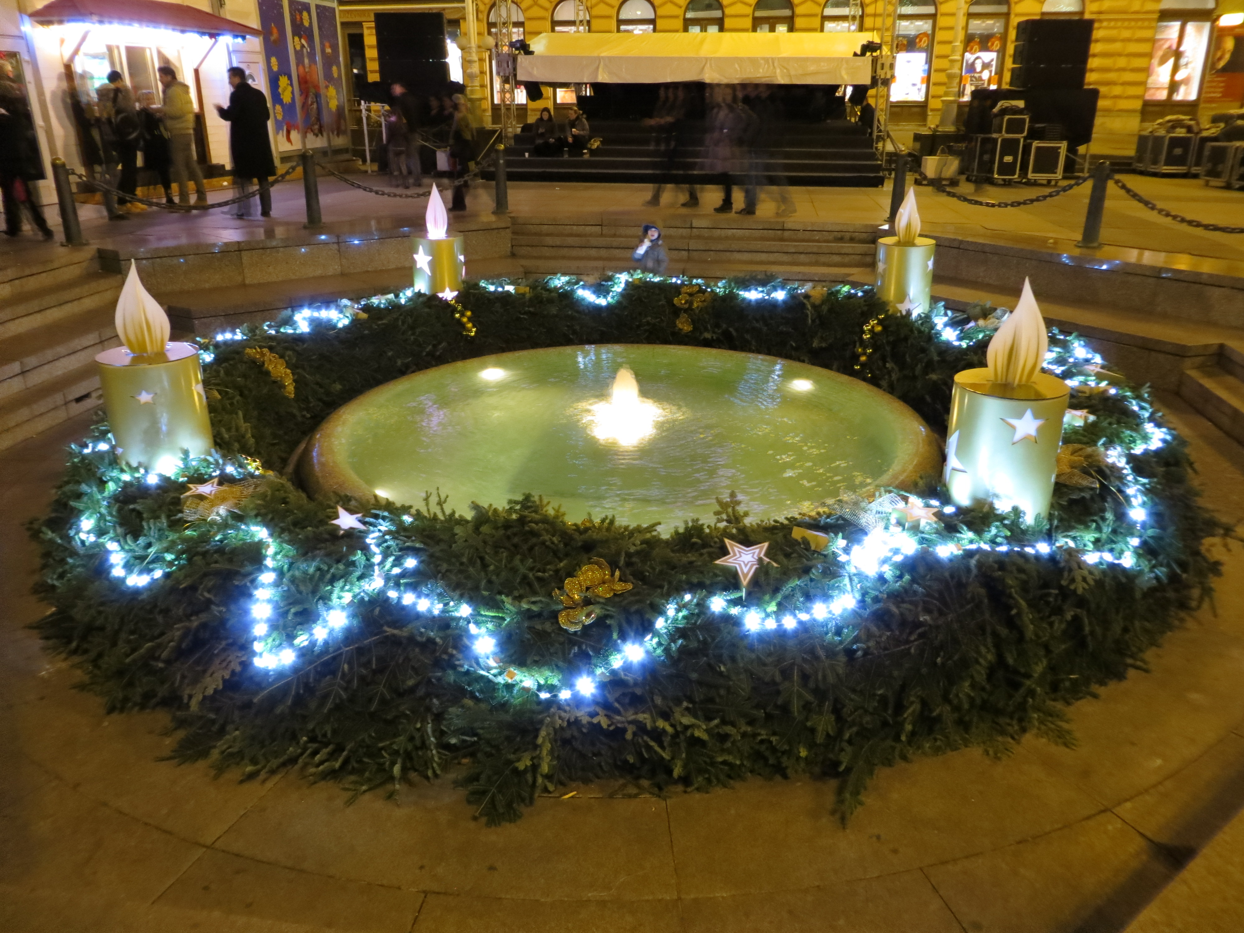 Manduševac fountain with Christmas decorations.